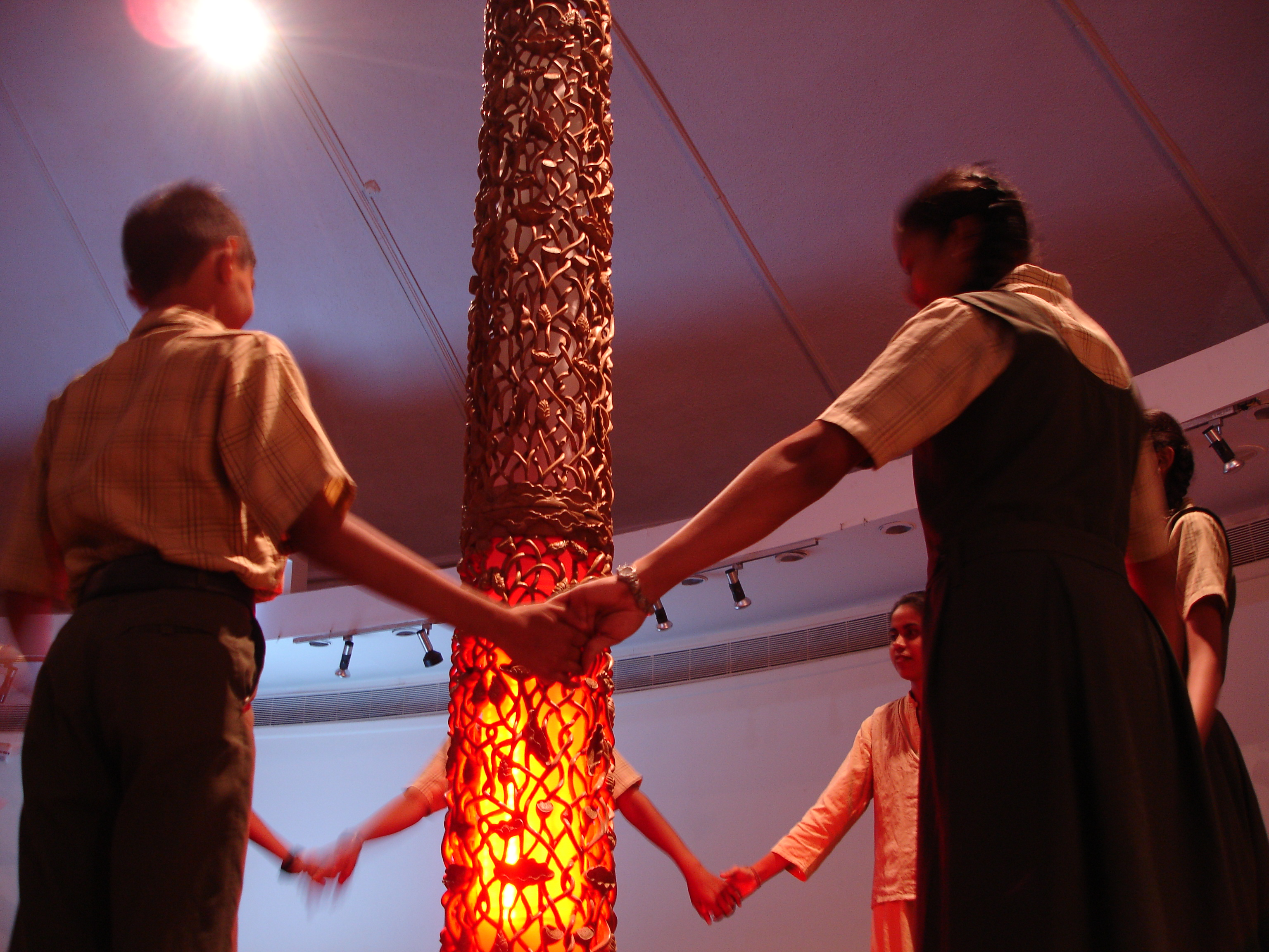 Unity Pillar allows people to hold hands to light up a pillar symbolising dissolution of boundaries, designed by Ranjit Makkuni.